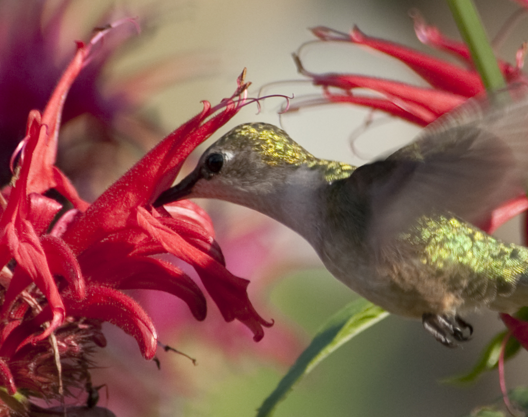 Cropped photo of female ruby-thraoted hummingbird